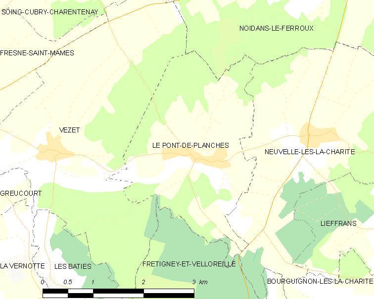 Map of French municipality